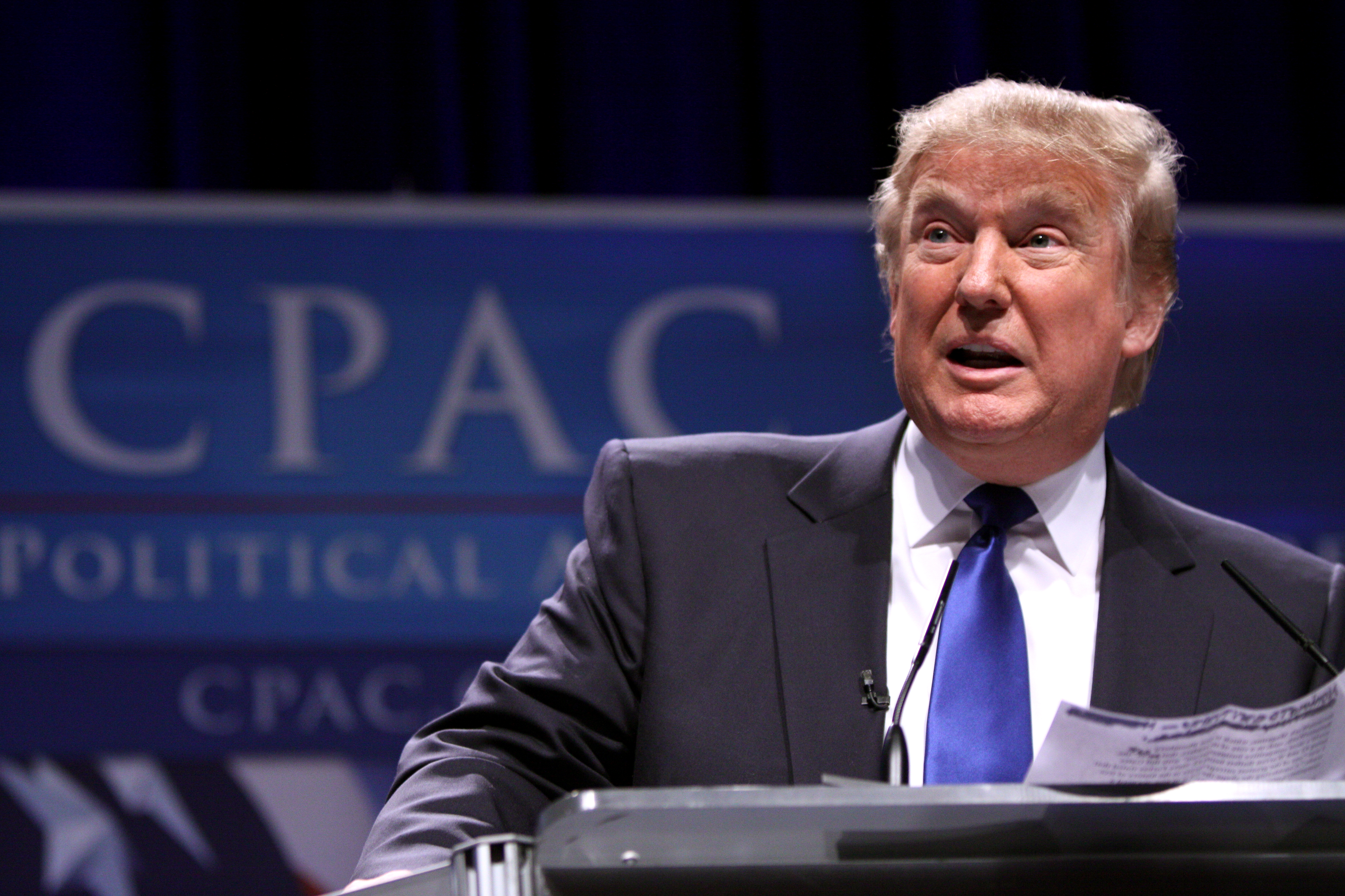 Donald Trump speaking at CPAC 2011 in Washington, D.C.